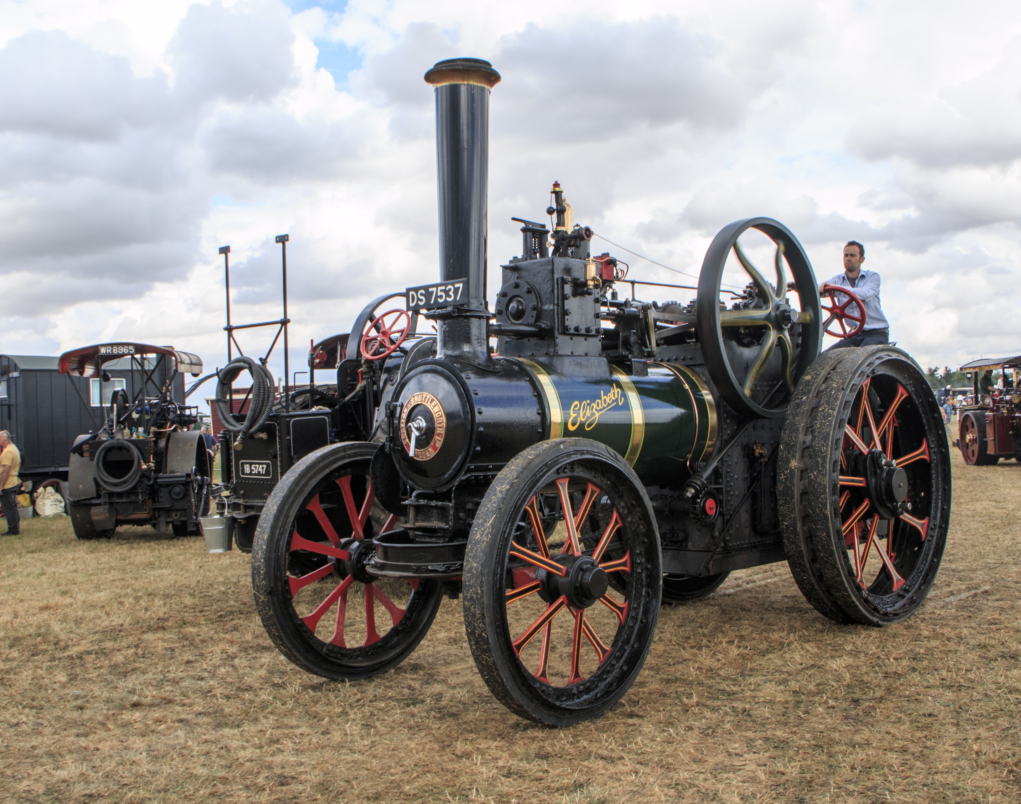 South Cerney Steam Rally 2014